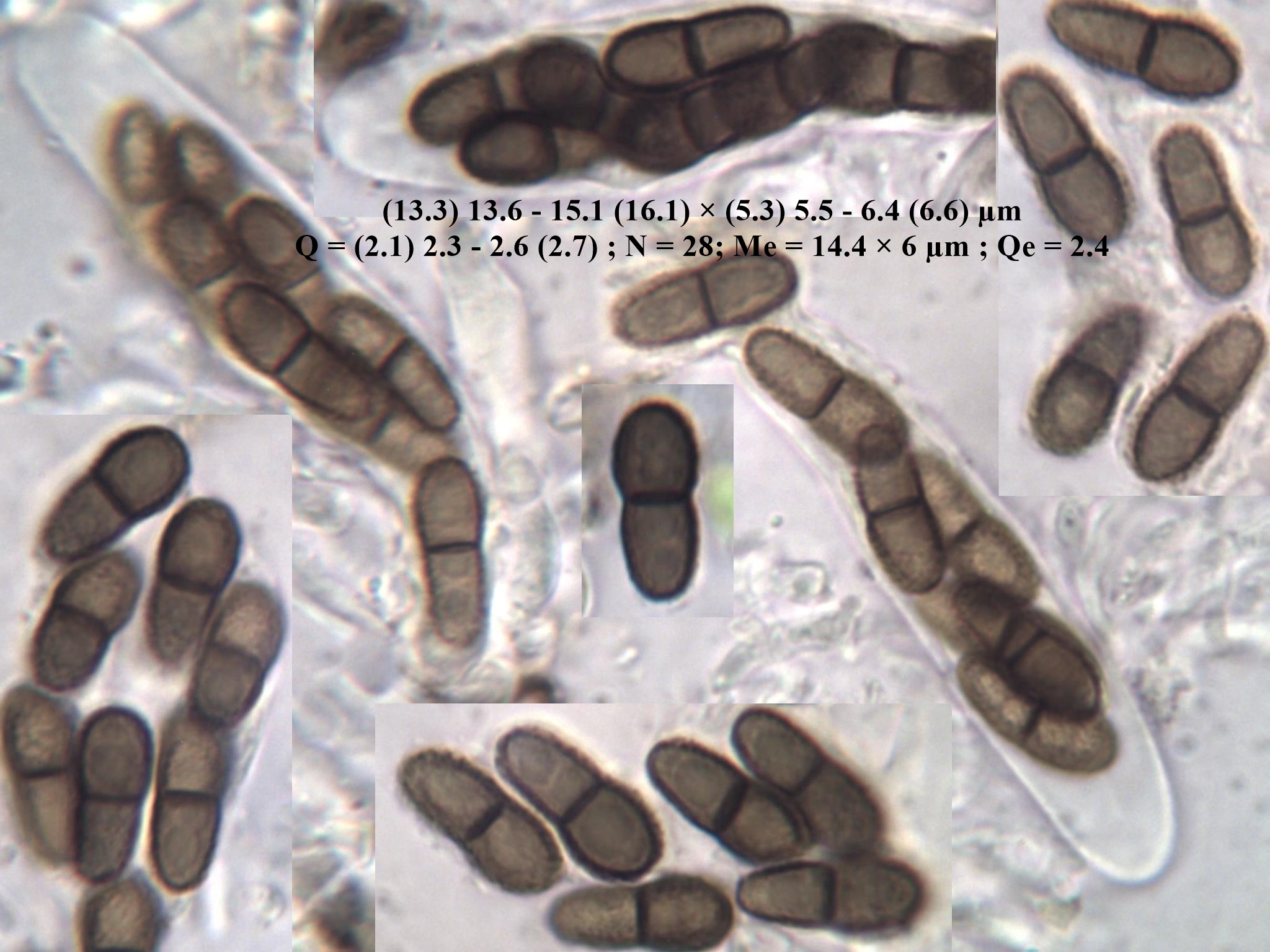 Abrothallus parmeliarum (Sommerf.) Arnold Image location: Serra de São Mamede, Portugal Lichenicolous fungus on Parmelia saxatilis. My first words are of thanks to the prestigious lichenologist Javier Etayo that once again gave me his precious help in the identification of this species, based on the photographs of specimens and microscopy. It was the first time I found lichenicolous fungus on Parmelia (in this case, P. Saxatilis). That same day and in the near site of this observation also found lichenicolous on P. sulcata, but in that case there was no apothecia. Based on microscopic features For more information about this, see the observation page at Mushroom Observer.